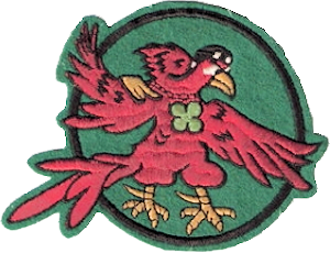 Emblem of the USAF 65th Fighter-Interceptor Squadron ADC